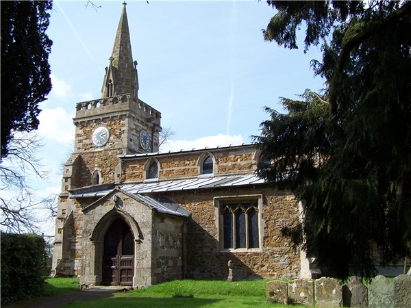 Parish church of St Mary the Virgin, Burrough-on-the-Hill, Leicestershire, seen from the southeast